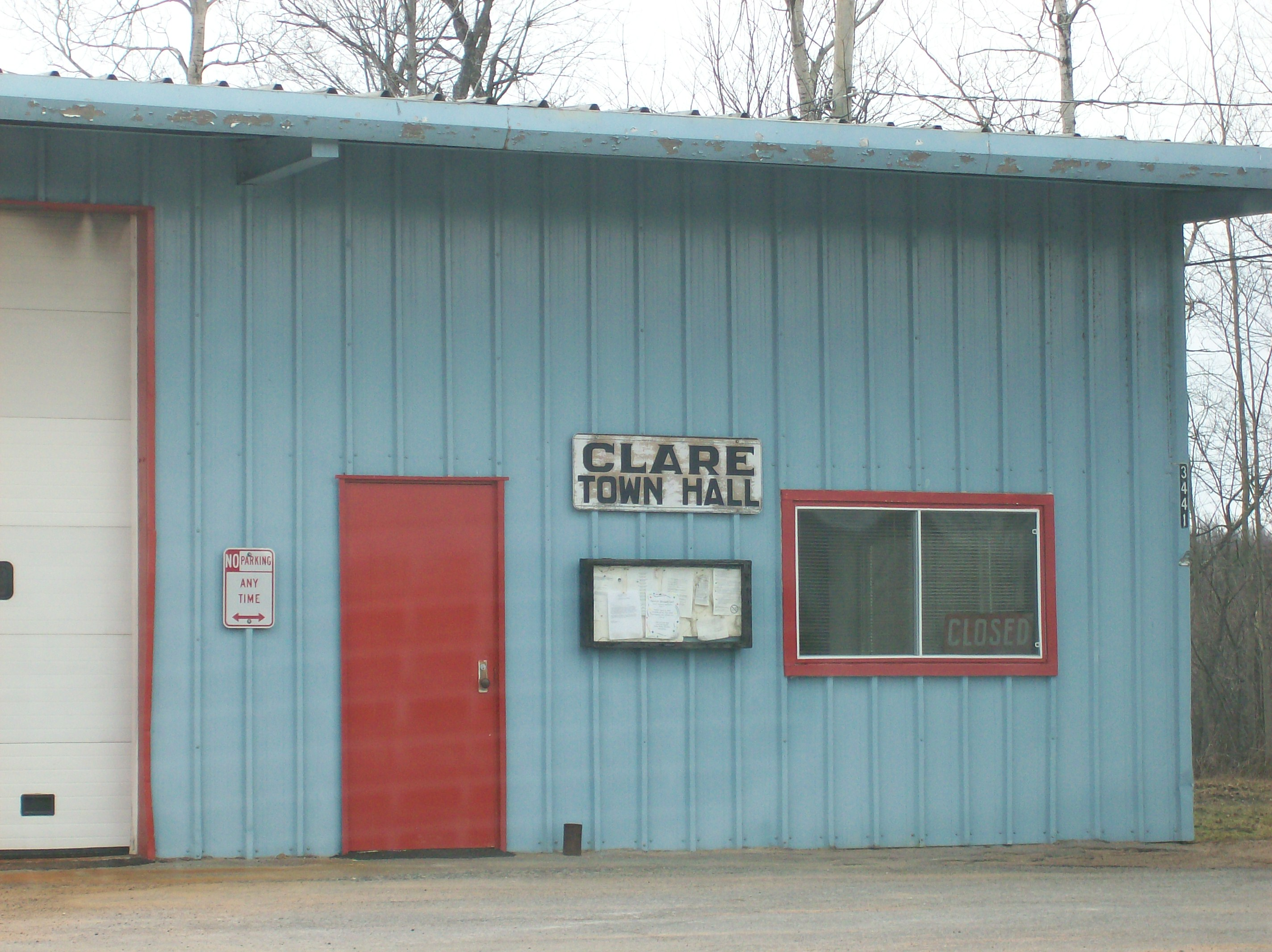 I took this photo.